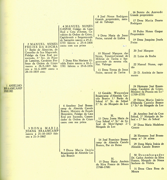 Anselmo Braamcamp Freire’s family tree